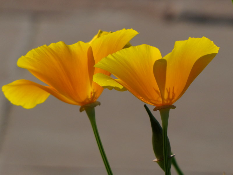 Yellow Poppy (species?) taken at Vijay Chowk, New Delhi